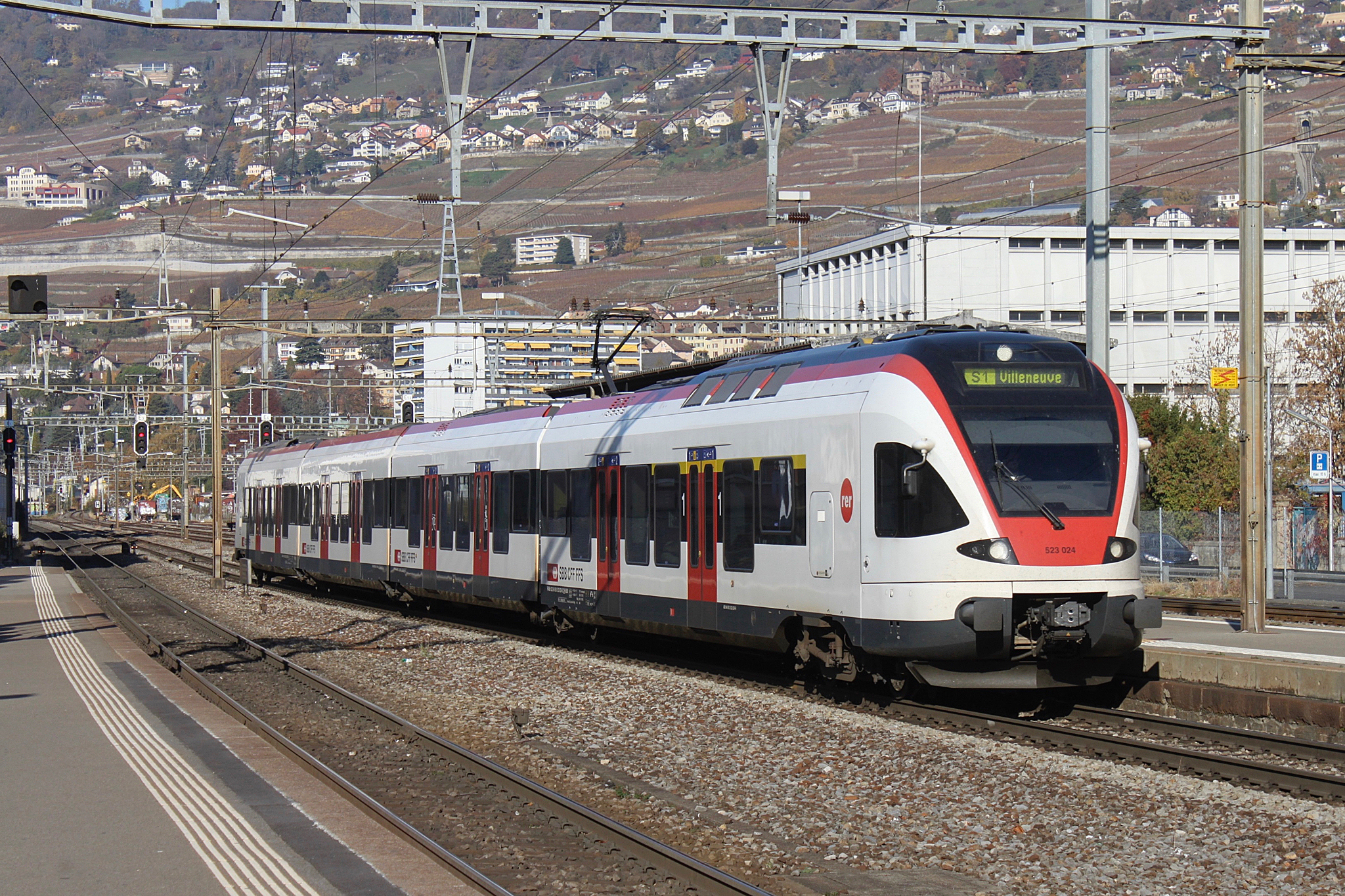 SBB CFF FFS RABe 523 024 at Vevey railway station.